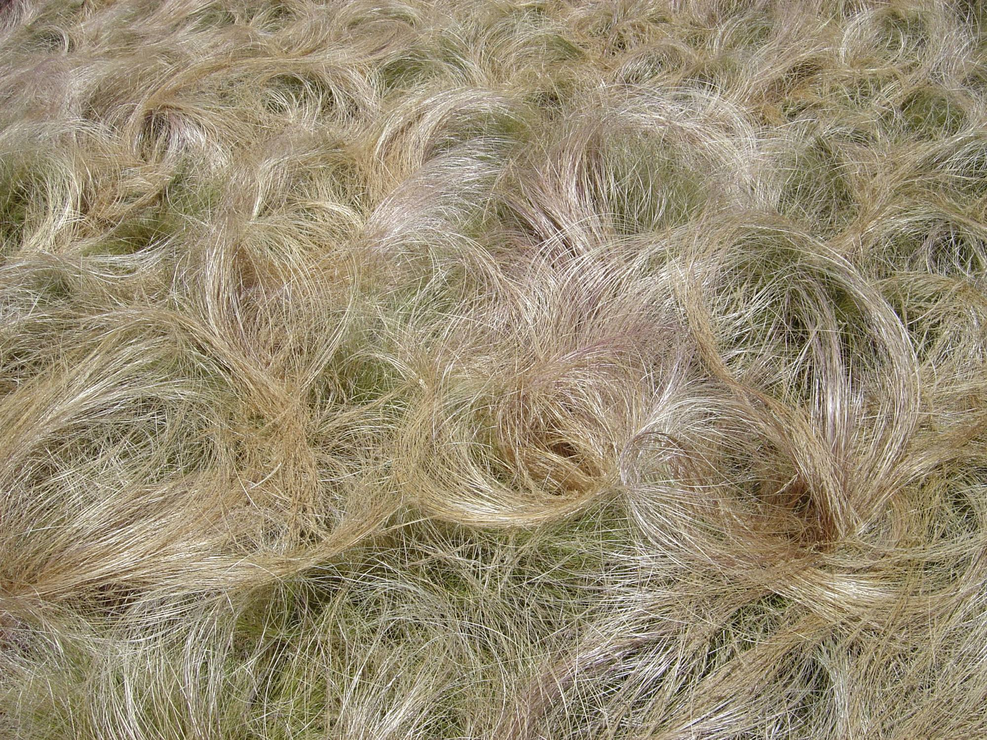 Grass, Nassella laevissima (Botanic Garden Berkeley, California)